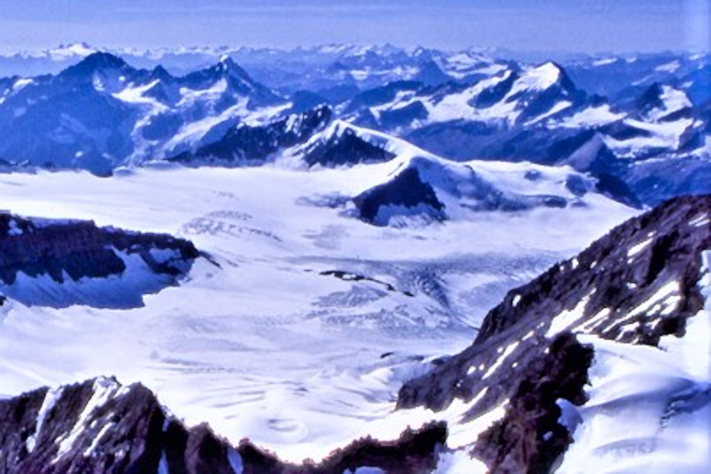 Mons Peak (upper centre) and Icefield (below Mons) from a Forbes buttress about 100 m (328 ft) below the Forbes' summit. Left of centre almost at the horizon is Bush Mountain and its 3 summits (Rostrum, Bush and Icefall. Right of centre and well below the horizon is Rosita, while the prominent peak right of centre is, I believe, Kemmel Mountain.